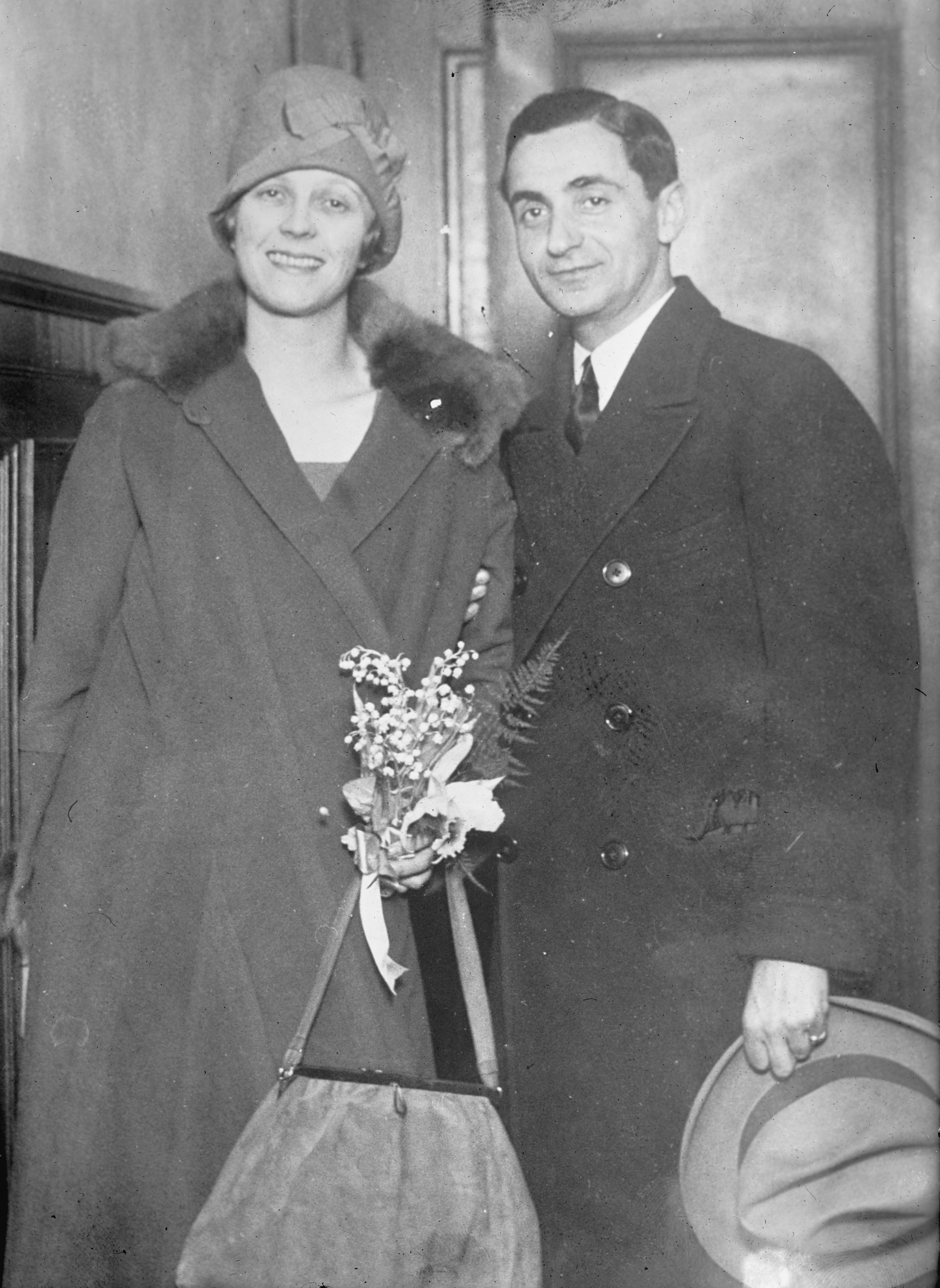 Irving Berlin & wife Ellen Mackay